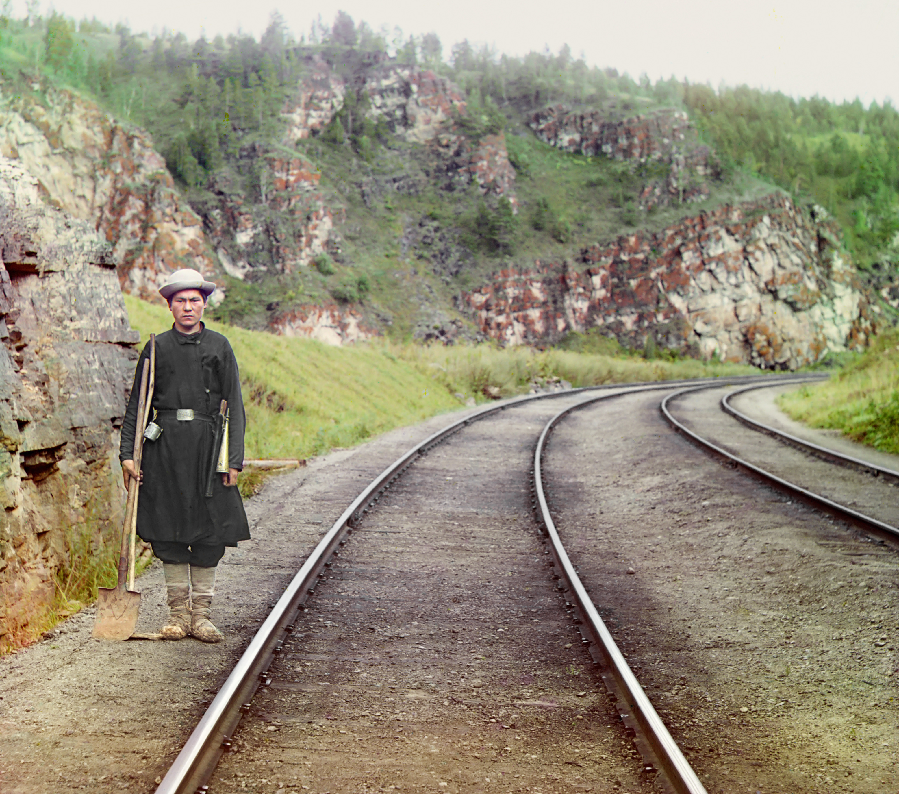 Bashkir switchman on the Trans-Siberian, near the town of Ust' Katav on the Yuryuzan River between Ufa and Cheliabinsk in the Ural Mountain region of European Russia